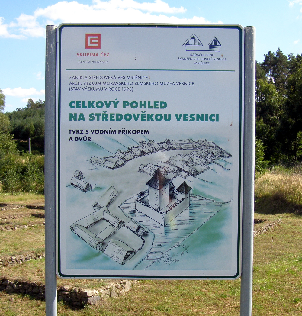 Mstěnice archaeological site, Hrotovice. Information board by „Endowment fund of Open-air Museum of Mstěnice Medieval Village“